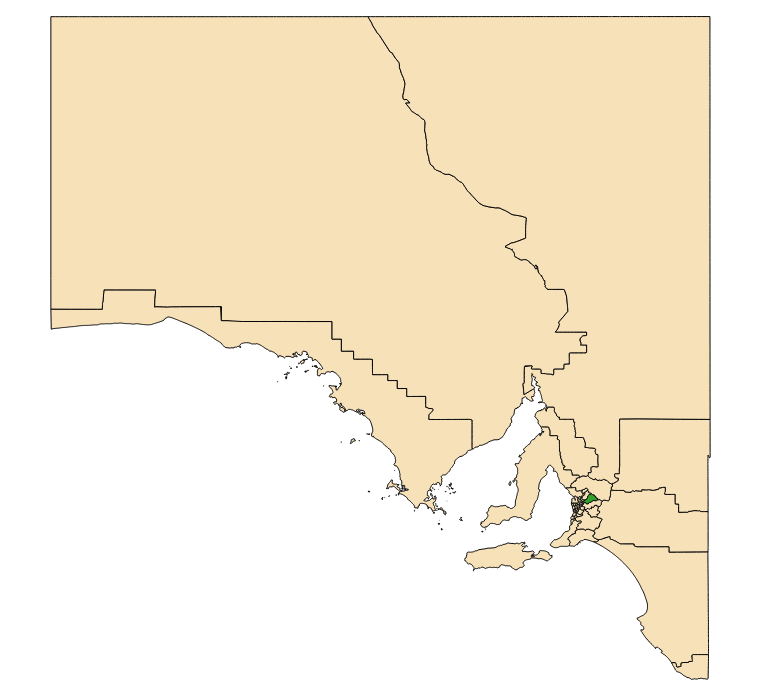 Electoral district 2018 boundaries shown in green